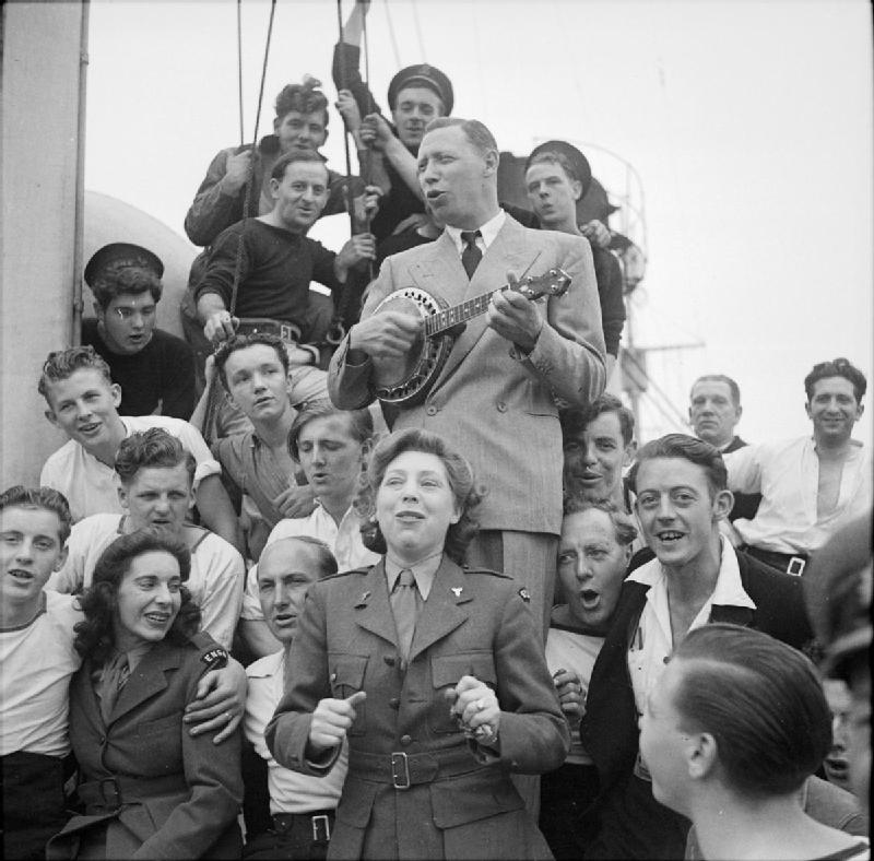 Entertaining British Troops in North West Europe, 1944 George Formby and his wife entertaining the crew of the Headquarters ship HMS AMBITIOUS, off the Normandy coast.